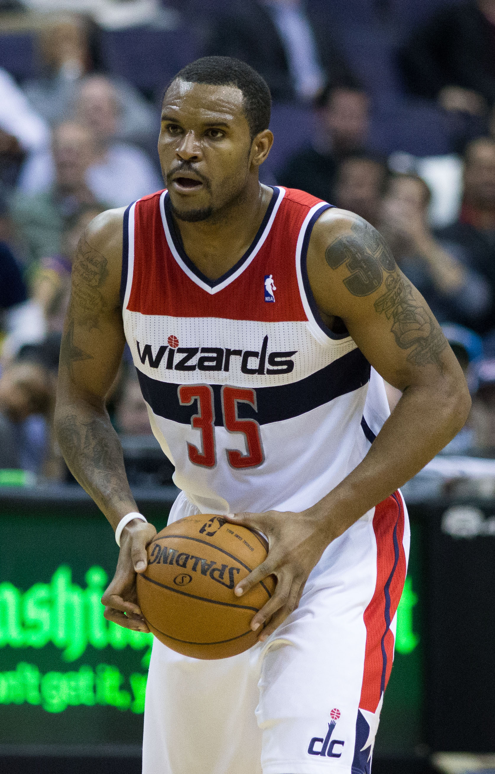 New Orleans Hornets at Washington Wizards March 15, 2013